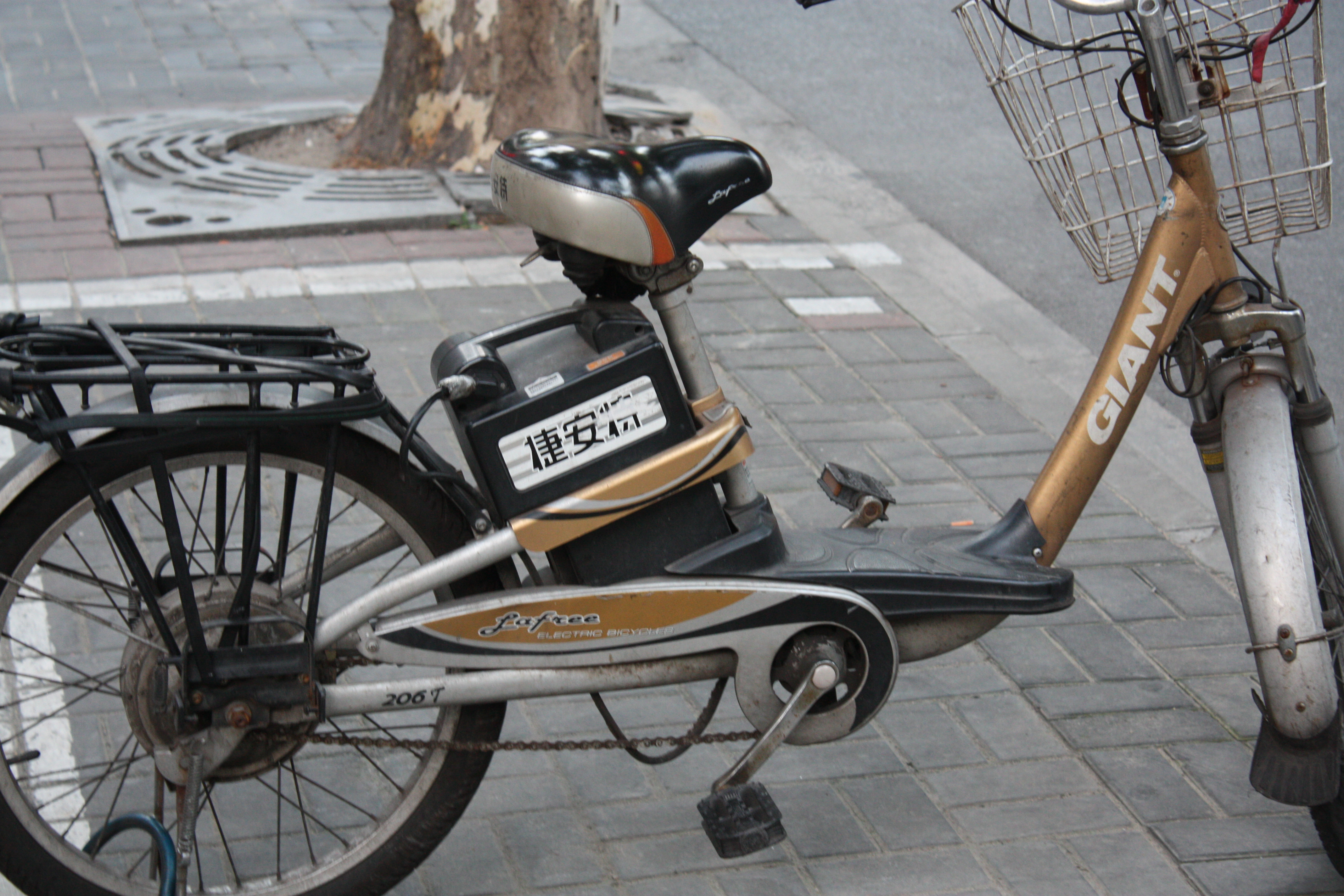 Electric Bicycle in Shanghai China